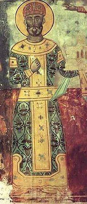 A medieval fresco of the Georgian King David IV from the English Wikipedia.